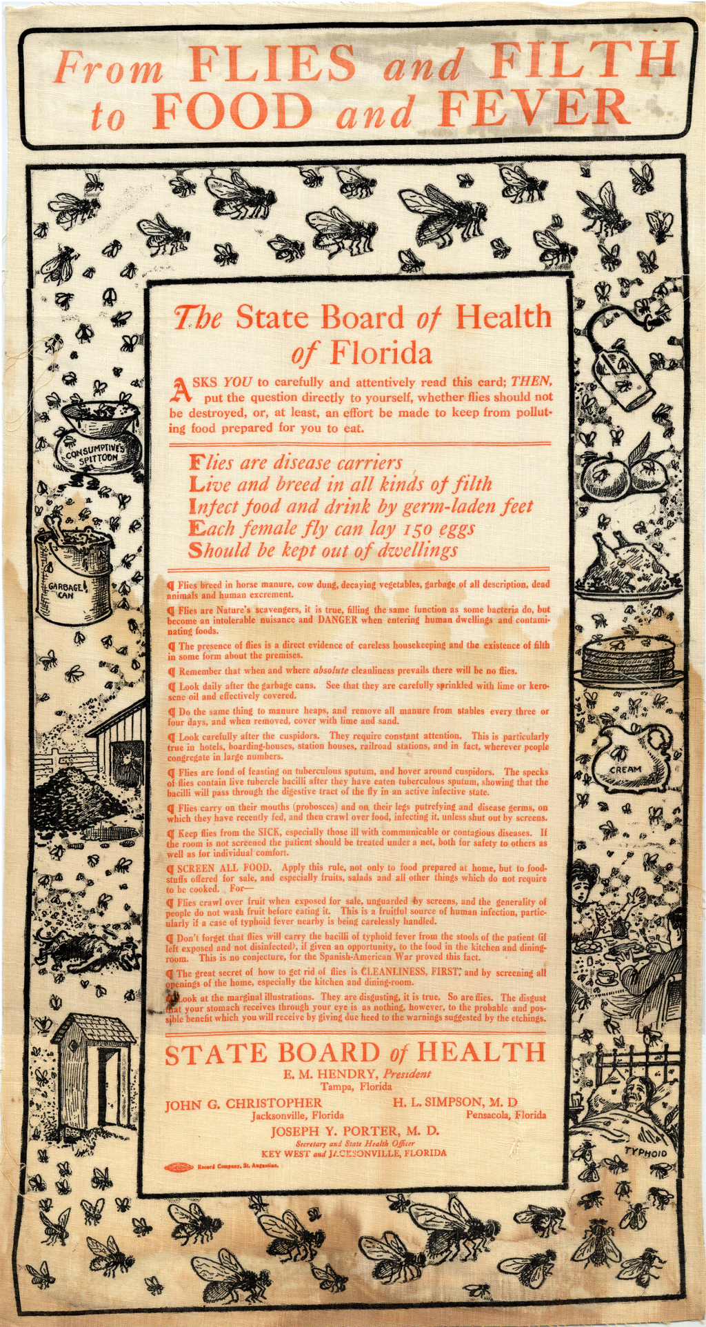 "From Flies and Filth to Food and Fever", 1916